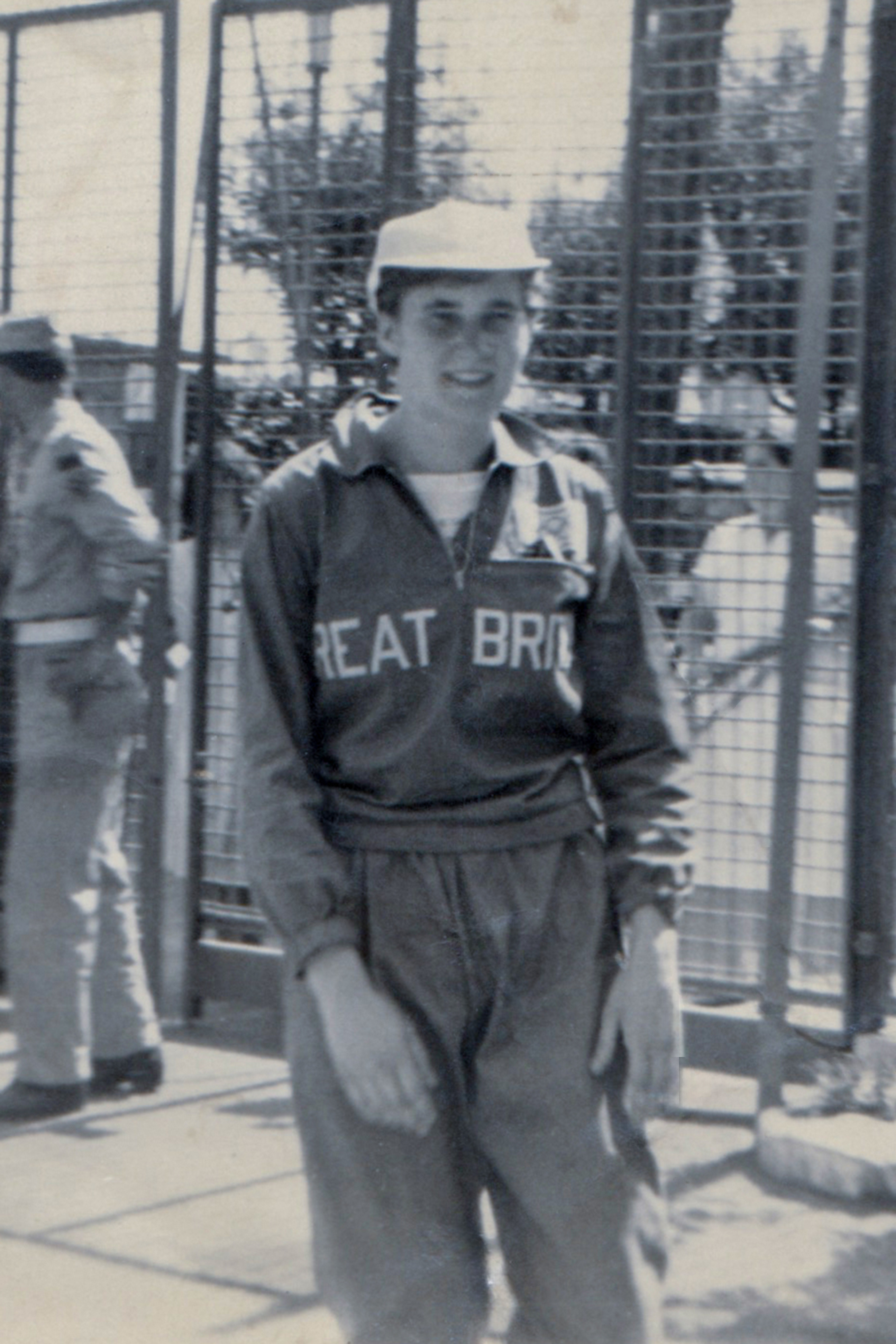 Dorothy Shirley, British High Jumper at the Rome Olympics in 1960.